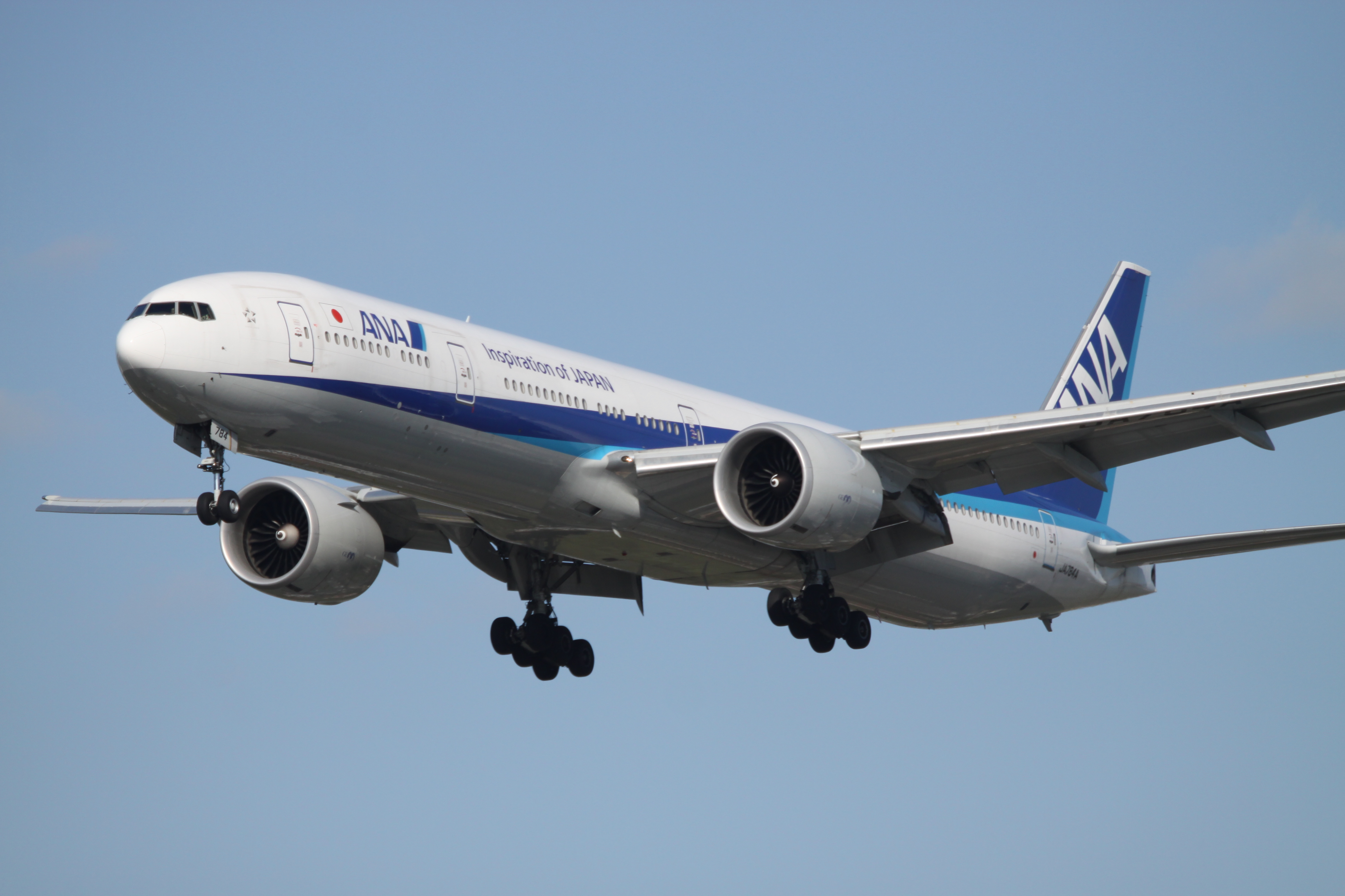 At London Heathrow